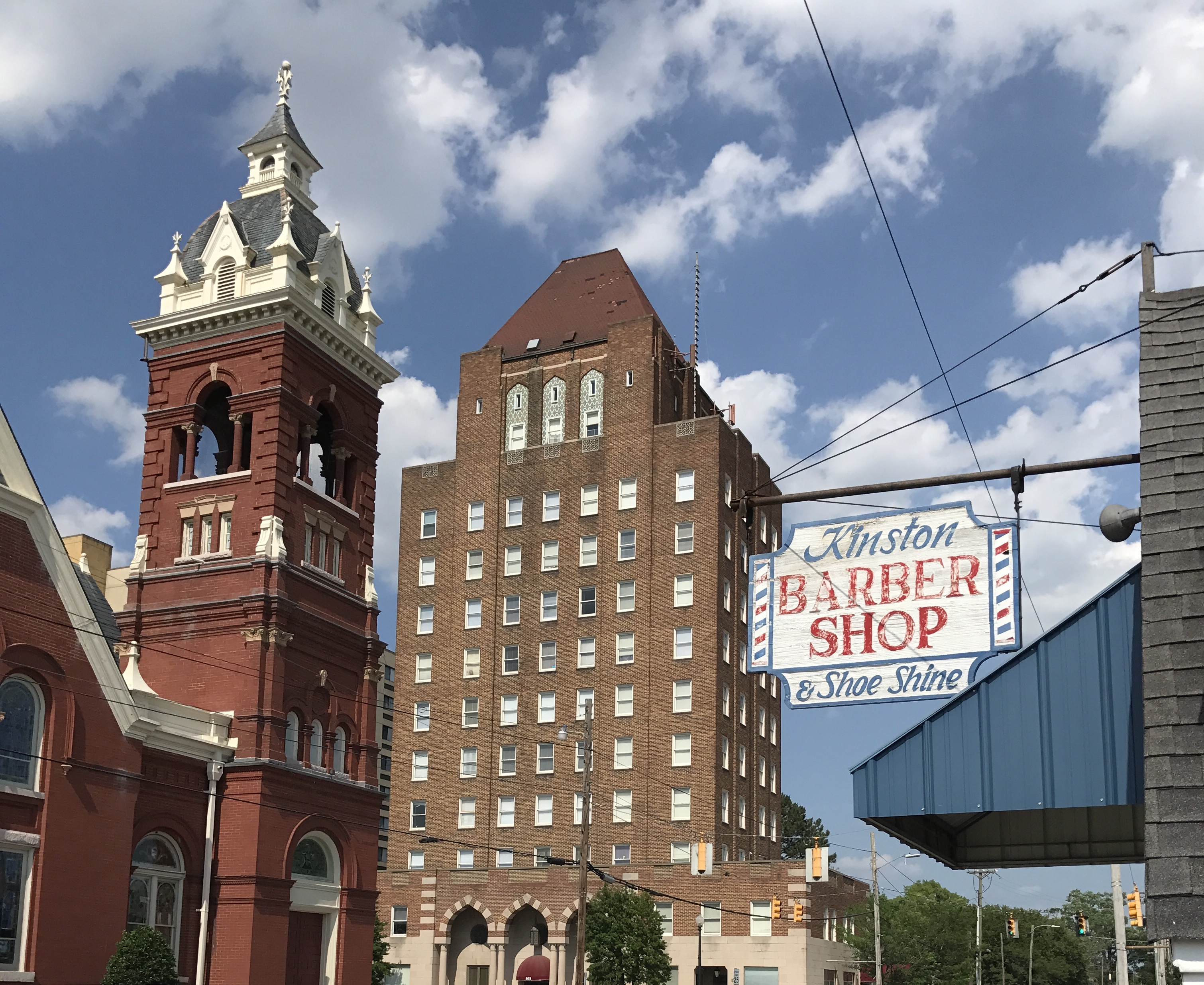 Queen Street United Methodist Church, Kinston Hotel, Kinston Barber shop